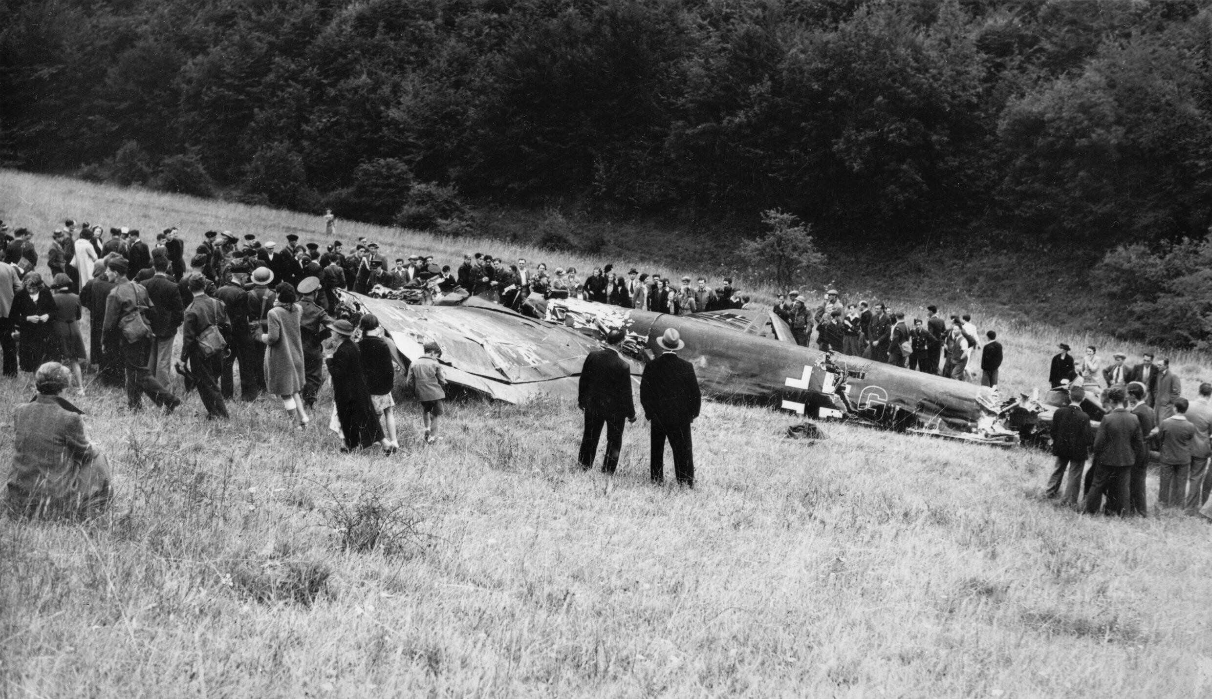 The Battle of Britain Bystanders gather around the wreckage of a Junkers Ju 88A (9K+GN) of 5./KG 51 at Oakridge near Stroud in Gloucestershire. The bomber was attempting to attack the Gloster plant at Hucclecote when it collided with a Miles Master of No. 5 FTS on approach to South Cerney aerodrome, 25 July 1940.